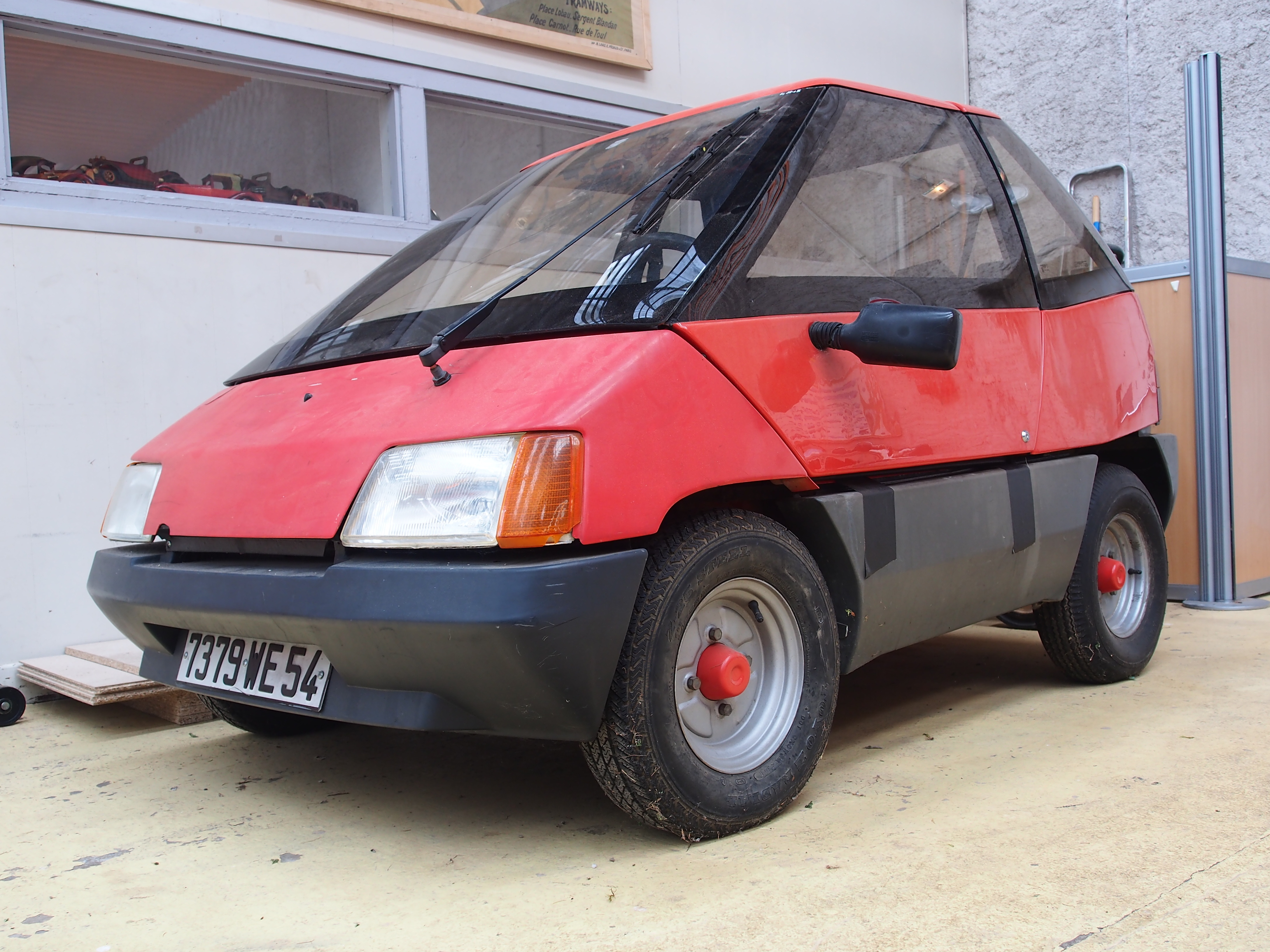 ERAD Junior, photographed at the Association Lorraine des Amateurs d'Automobiles de collection et de loisirs.